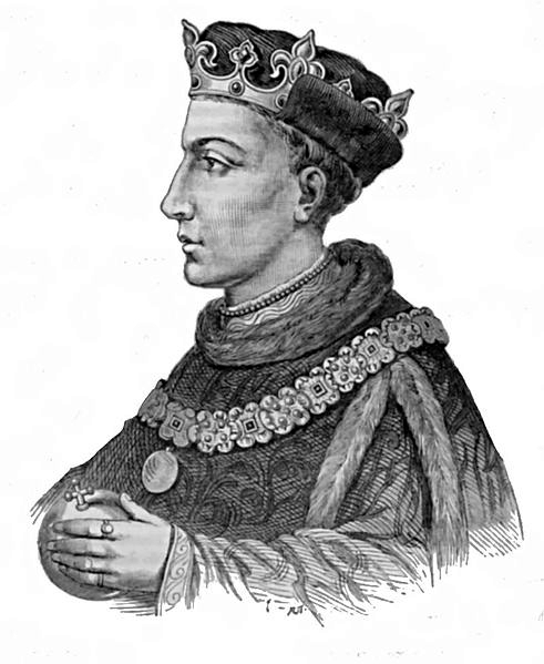 Henry V of England